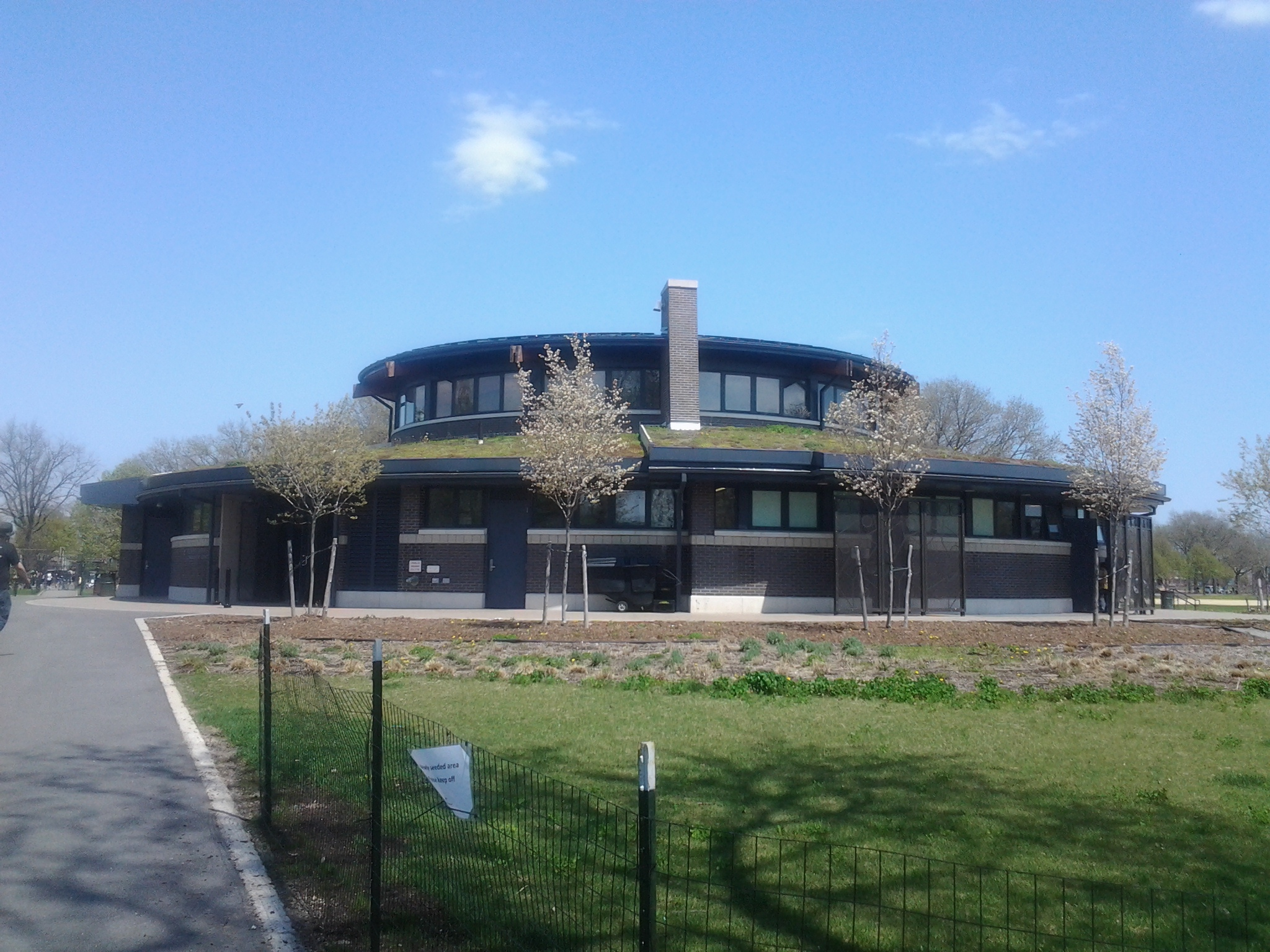 Carmine Carro Community Center in Marine Park in Brooklyn, NY. Built in 2013 with green roof, solar panels, and a geothermal heating and cooling system.